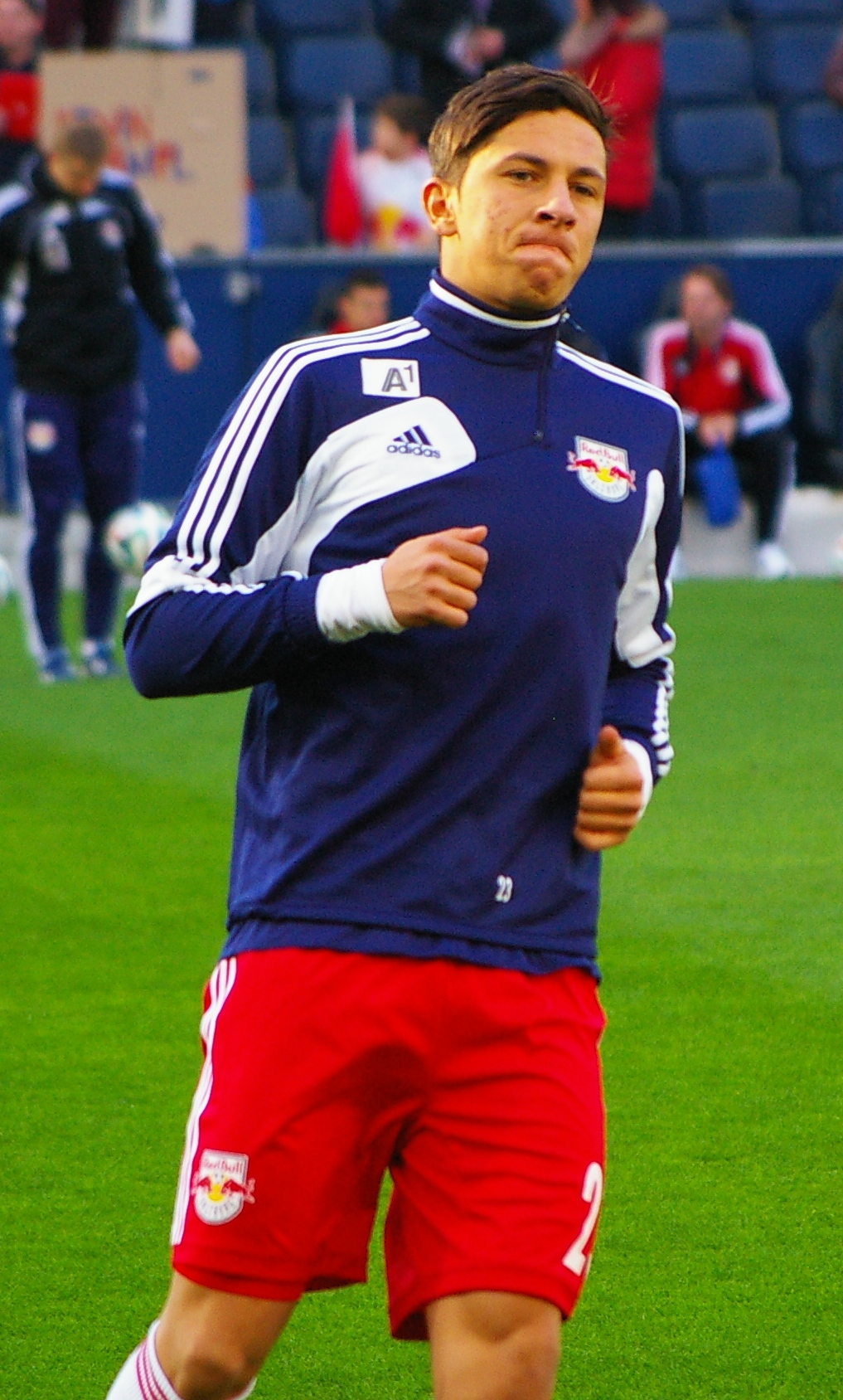 league match Austrian Bundesliga